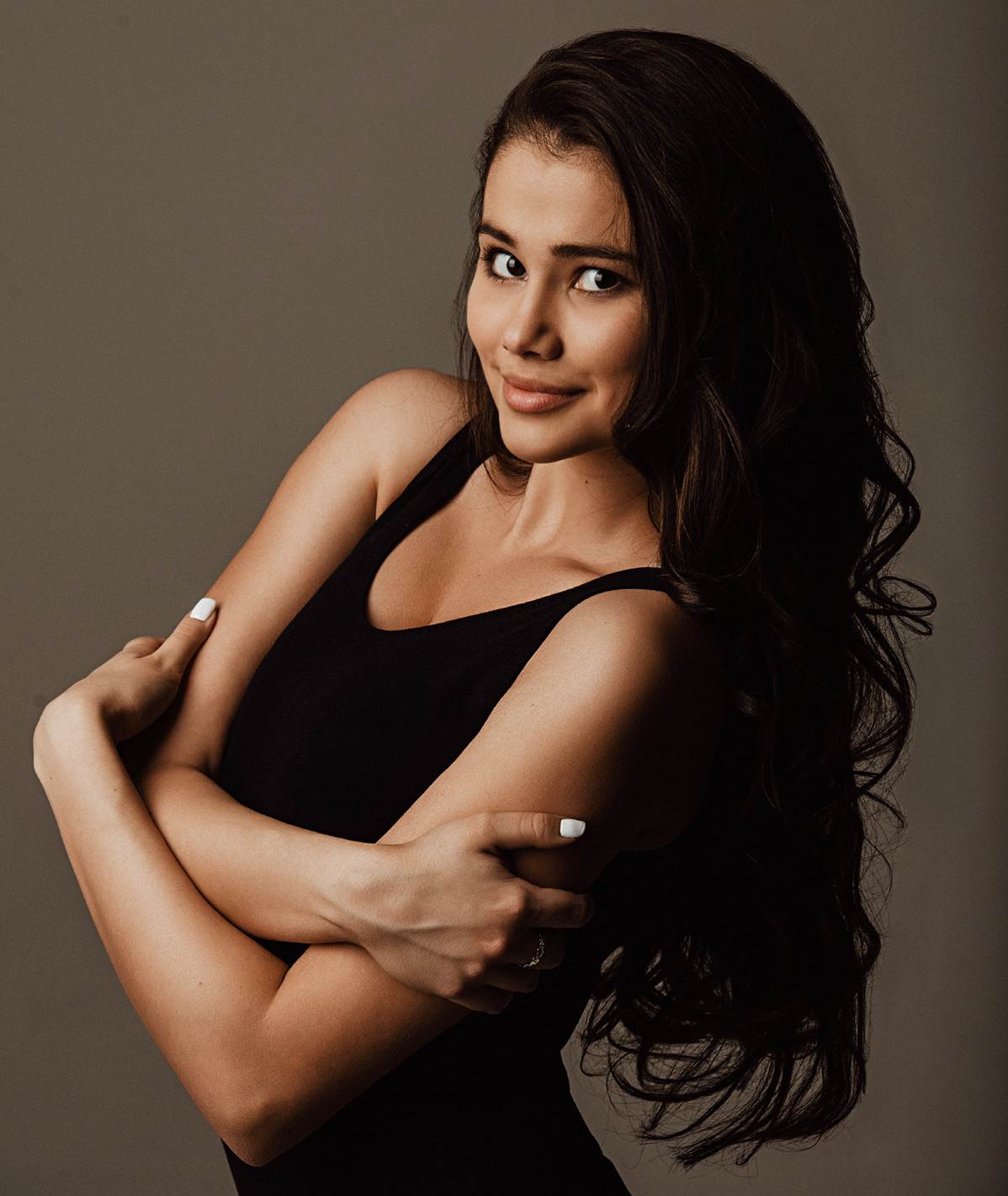 Korchagina Alexandra